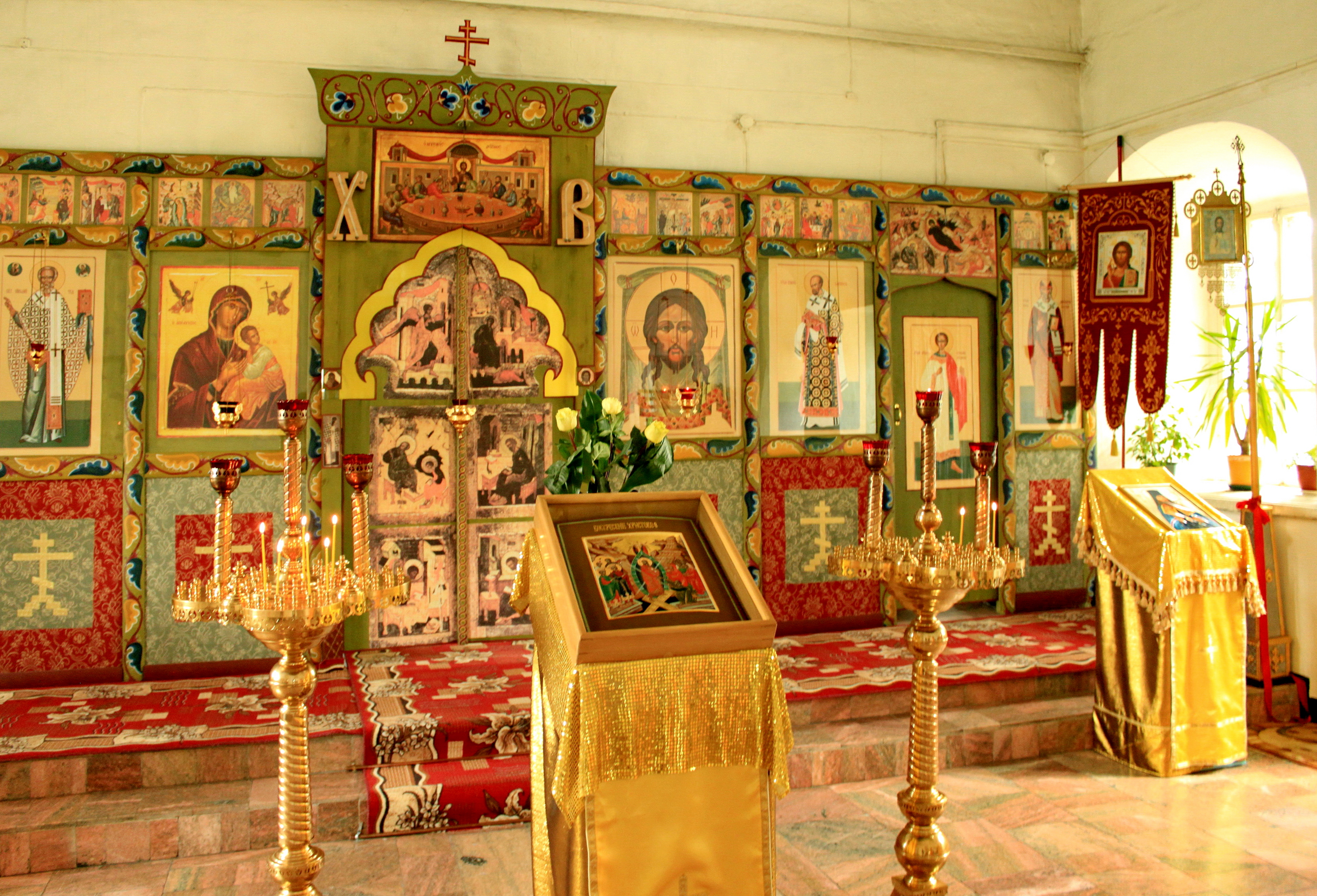 Church of the Holy Mandylion. Iconostasis. Irkutsk, Russia.